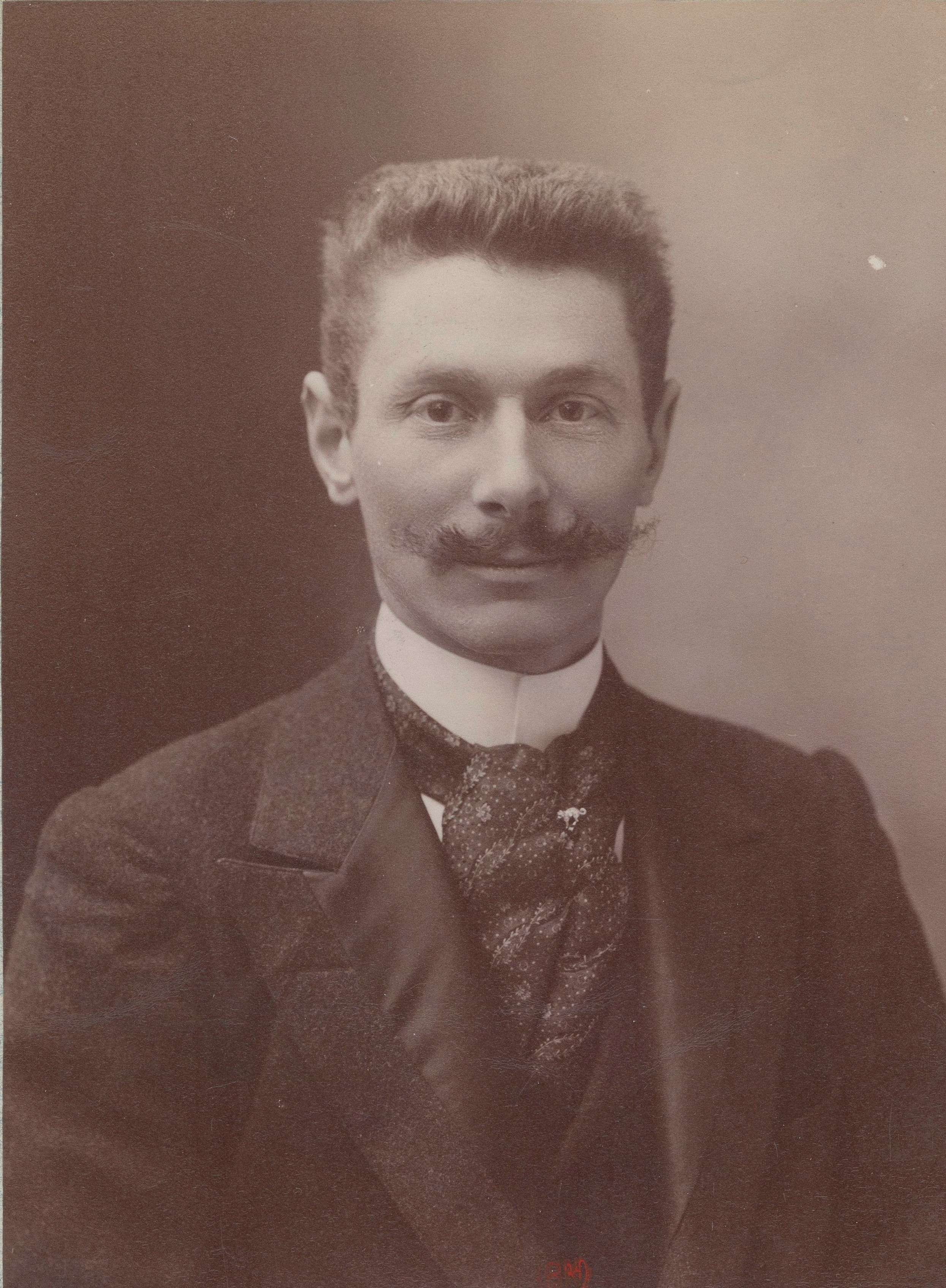 Photo of Claudius Madrolle